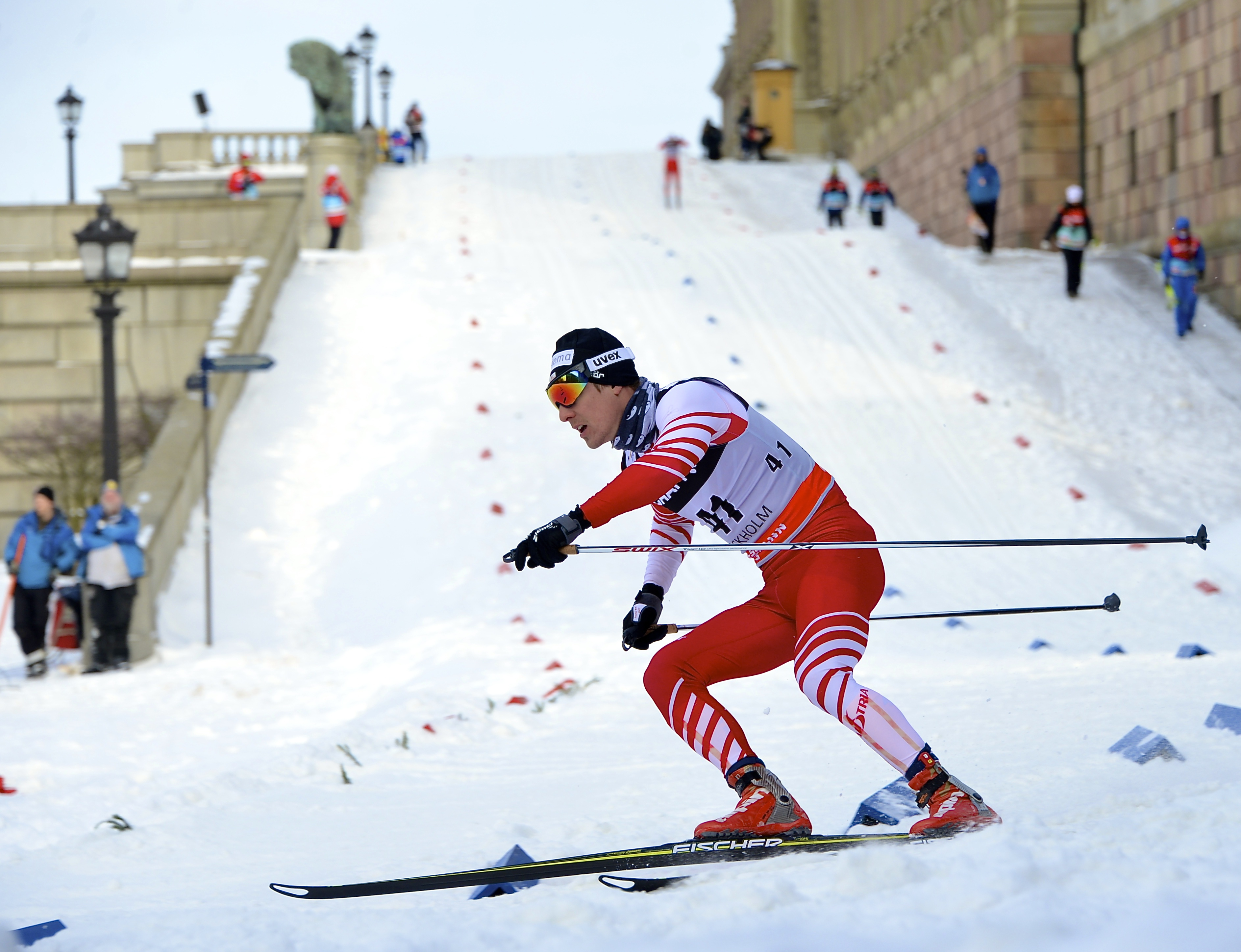 Johannes Duerr at Royal Palace Sprint in Stockholm March 20, 2013